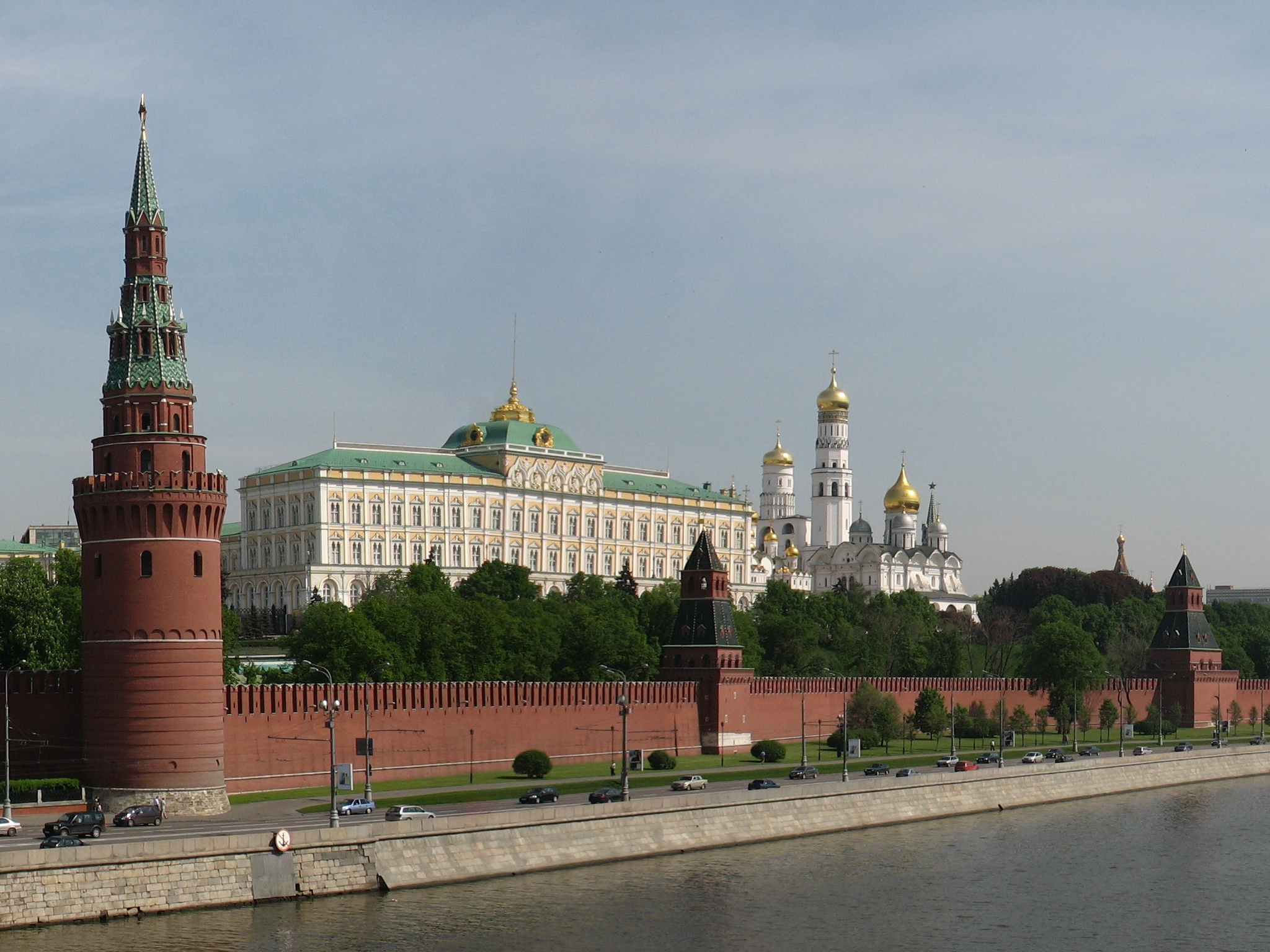 Panorama of Moscow Kremlin from Bolshoi Kamenny bridge